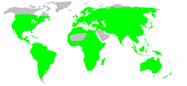 Pisauridae habitat distribution, drawn after Platnick: World Spider Catalog 7.0. This is not a precise rendering of the distribution! If you have better information, please replace this map, or send me the info, and i will redraw it.